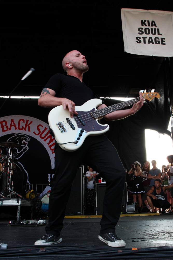 Cooper performing at Warped Tour in 2012